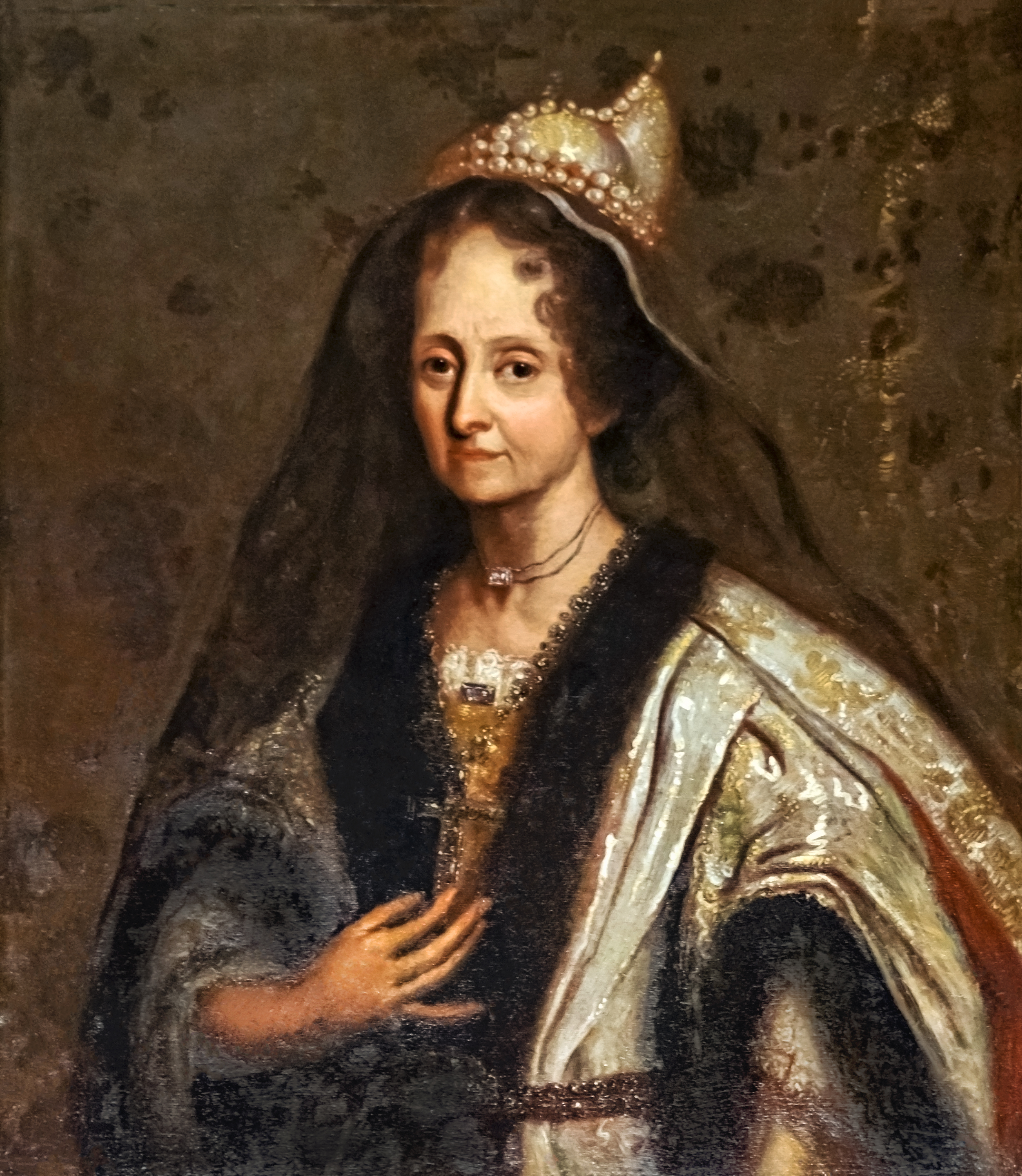 Depicted person: Elisabetta Querini – Dogaress of Venice